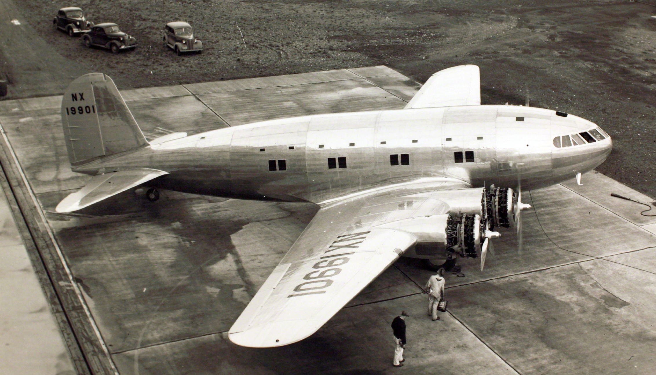 Catalog #: 01_00091288 Title: Boeing, Type 307, Stratoliner Corporation Name: Boeing Aircraft Designation: Type 307 Official Nickname: Stratoliner Additional Information: USA Repository: San Diego Air and Space Museum Archive Tags: Boeing, Type 307, 307, Stratoliner